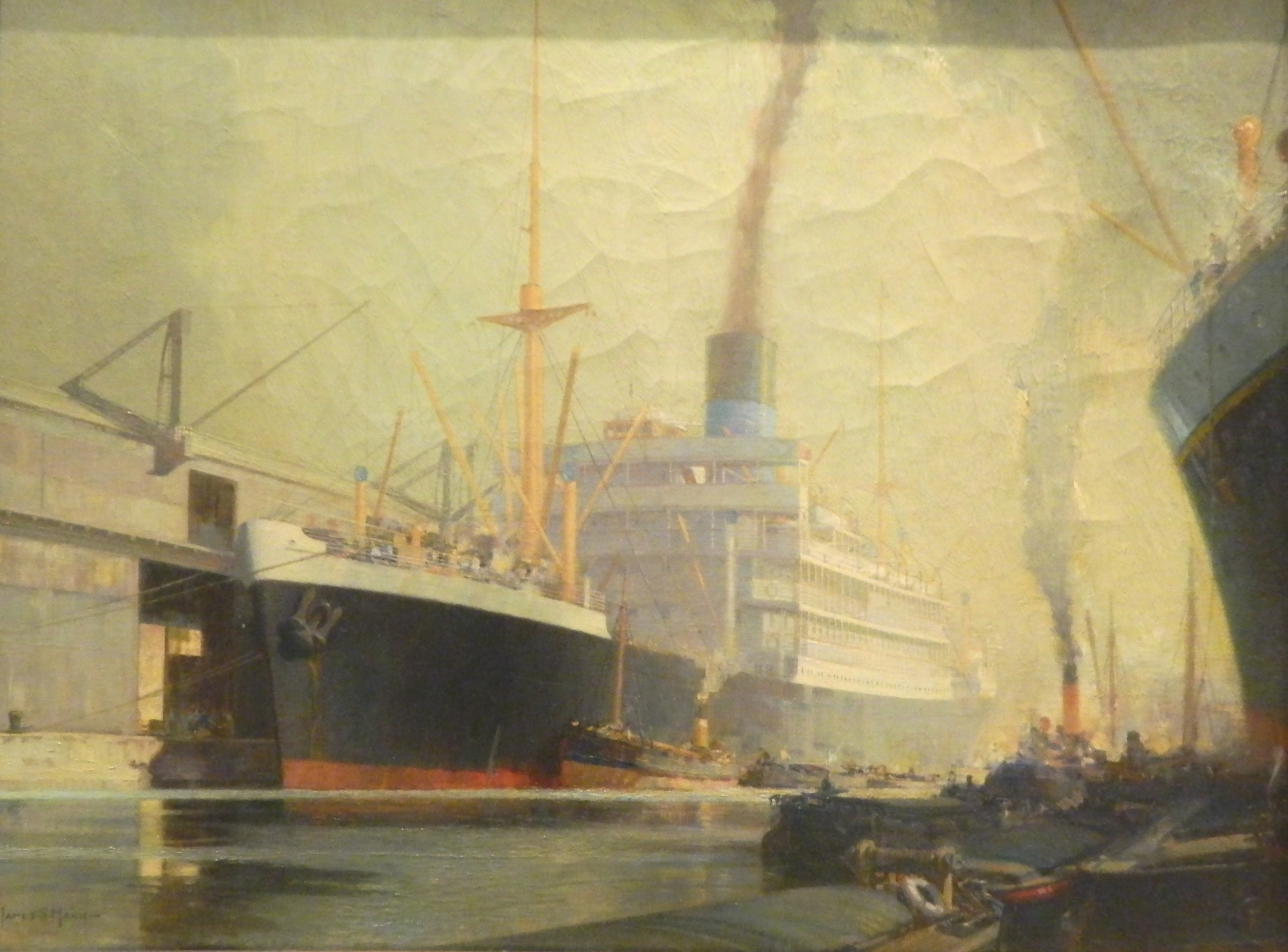 Oil on canvas painting by JS Mann of the 11,321 GRT Blue Funnel liner Sarpedon in Gladstone Dock, Liverpool. The painting is in the Museum of Liverpool. The ship was built in 1923, scrapped in 1953 and was the fourth of six Blue Funnel ships to bear the Sarpedon name.